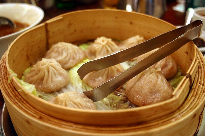 Joe's Shanghai dumplings.